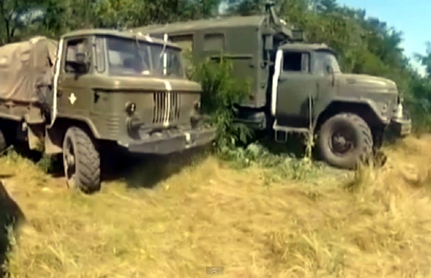 Ukrainian army trucks in Donbass.